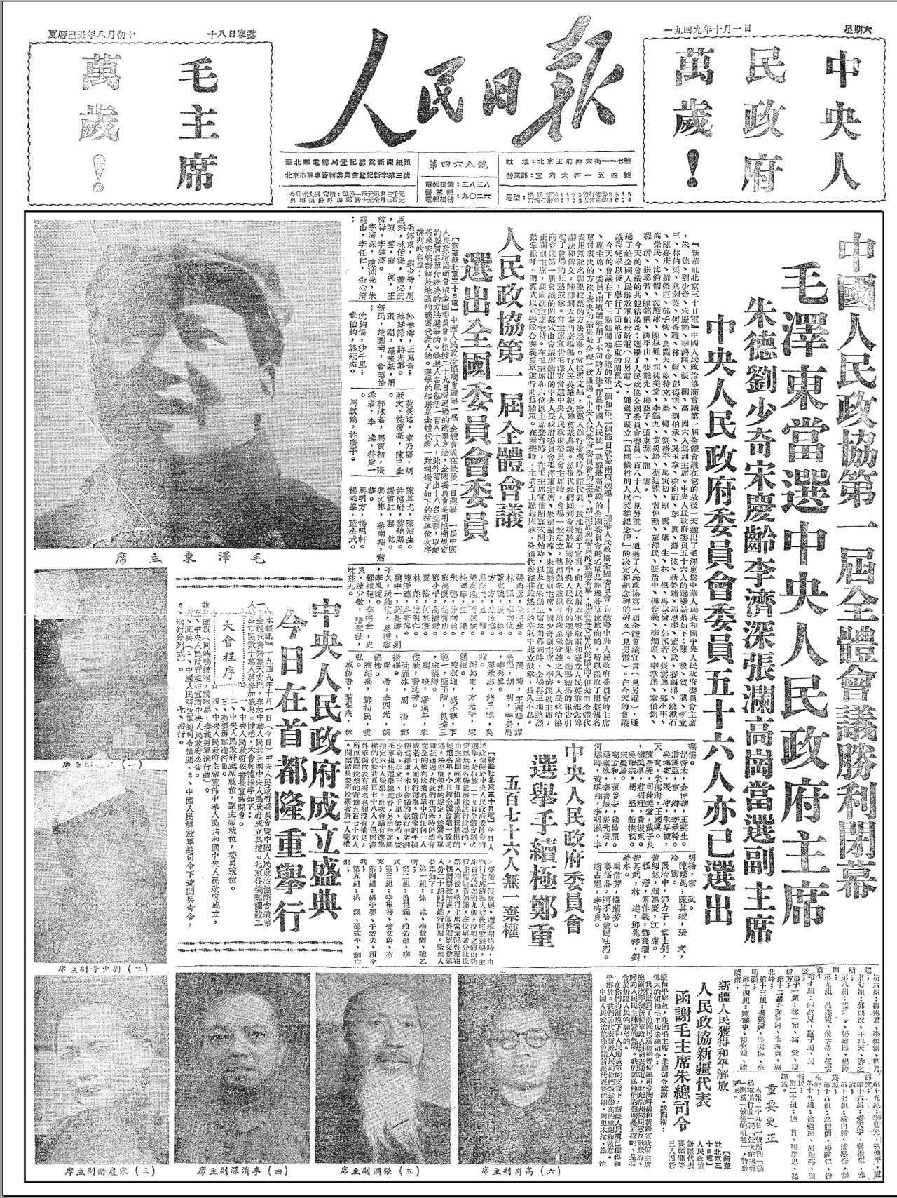 People's daily, on 1 October, 1949, the day of the establishment of China, P. R.